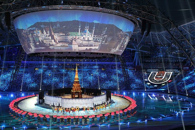 Opening of 2013 Universiade in Kazan